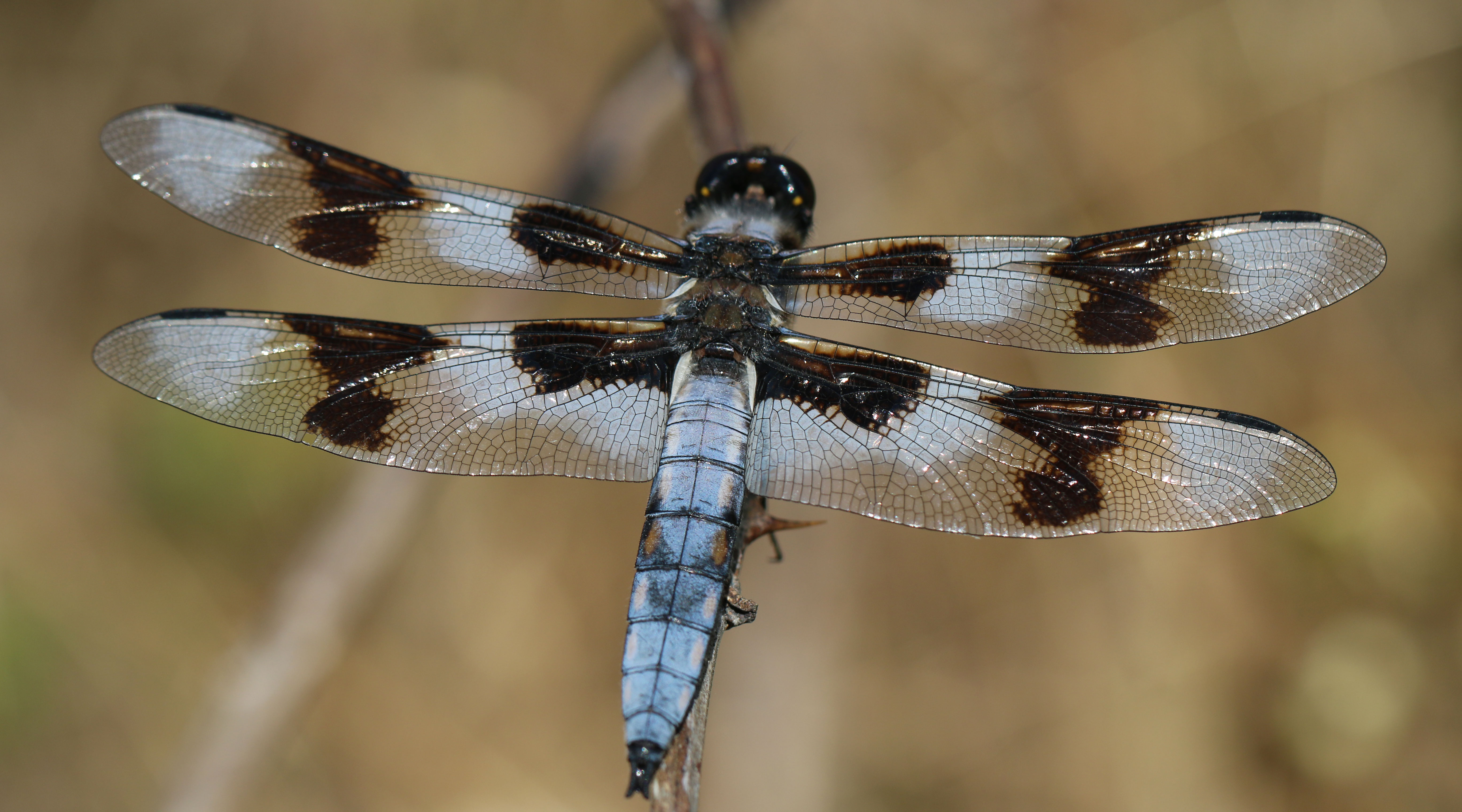 Eight-spotted skimmer (Libellula forensis) You are free to use this image with the following photo credit: Peter Pearsall/U.S. Fish and Wildlife Service